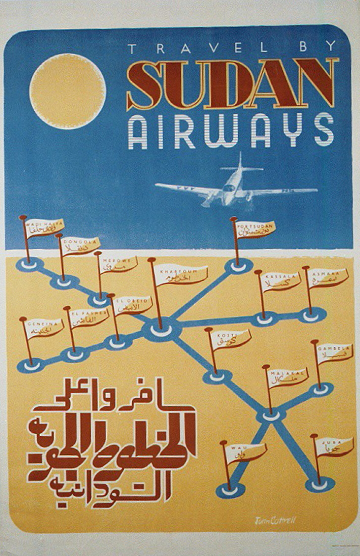 Poster from the Don Thomas Collection. Mr. Thomas was a collector of aircraft memorabilia who donated several posters to the San Diego Air and Space Museum. Repository: San Diego Air and Space Museum Archive